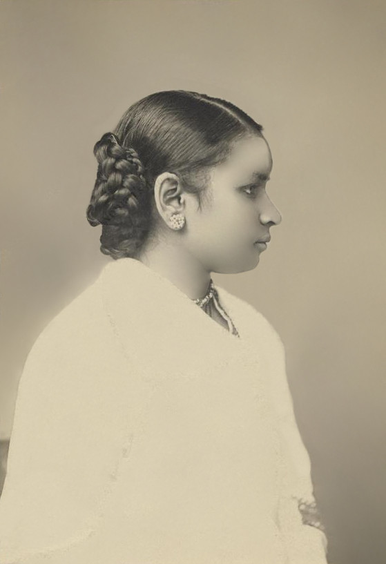 A portrait photo of Dr. Anandibai Joshee, M.D., Class of 1886 at the Women's Medical College of Pennsylvania.